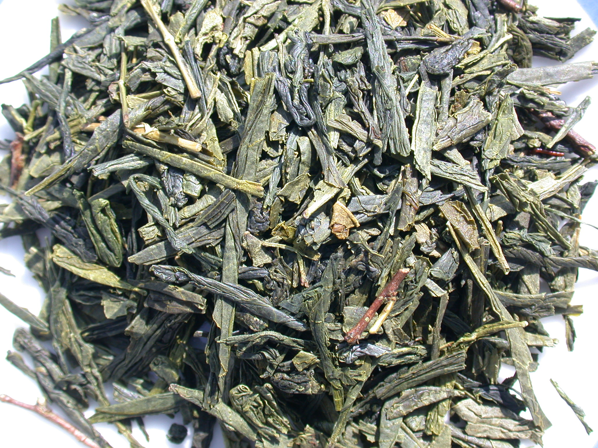 Bancha (green tea from japan).